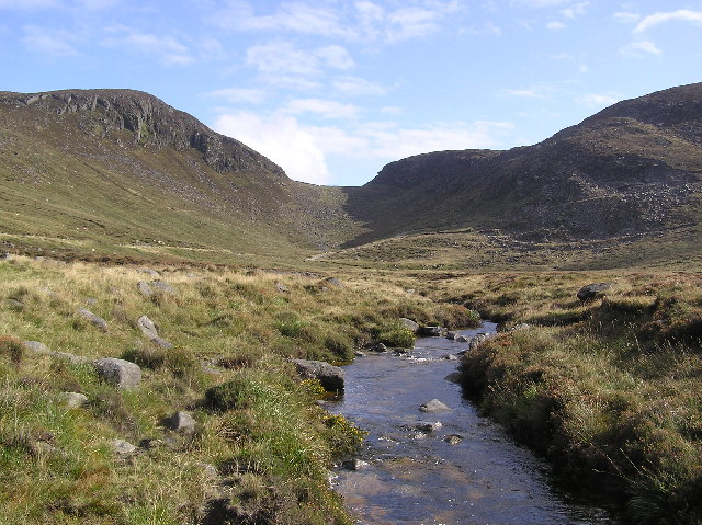 Hare's Gap. Looking up to Hare's Gap from the Trassey River